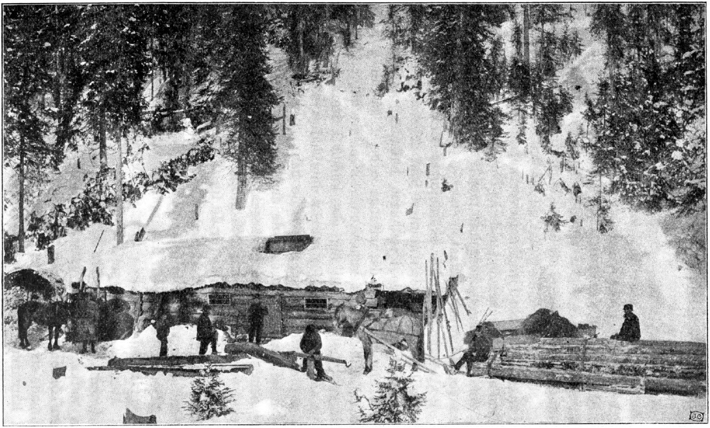 "Timmerkoja vintertid." Photo by A. Sundien. Illustration from Nils Holgerssons underbara resa genom Sverige by Selma Lagerlöf.